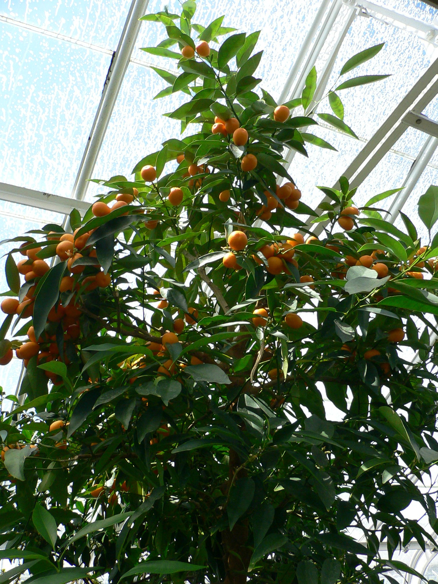 Pictures taken by myself at Longwood Gardens